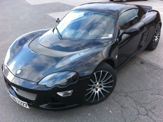 Lotus Europa SE